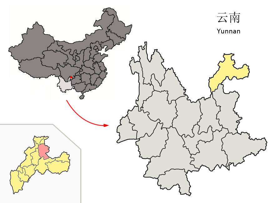 Location of Yanjin County (pink) and Zhaotong Prefecture (yellow) within Yunnan province of China Map drawn in september 2007 using various sources, mainly : Yunnan province administrative regions GIS data: 1:1M, County level, 1990 Yunnan Counties map from Zhaotong Prefecture administrative map from .au